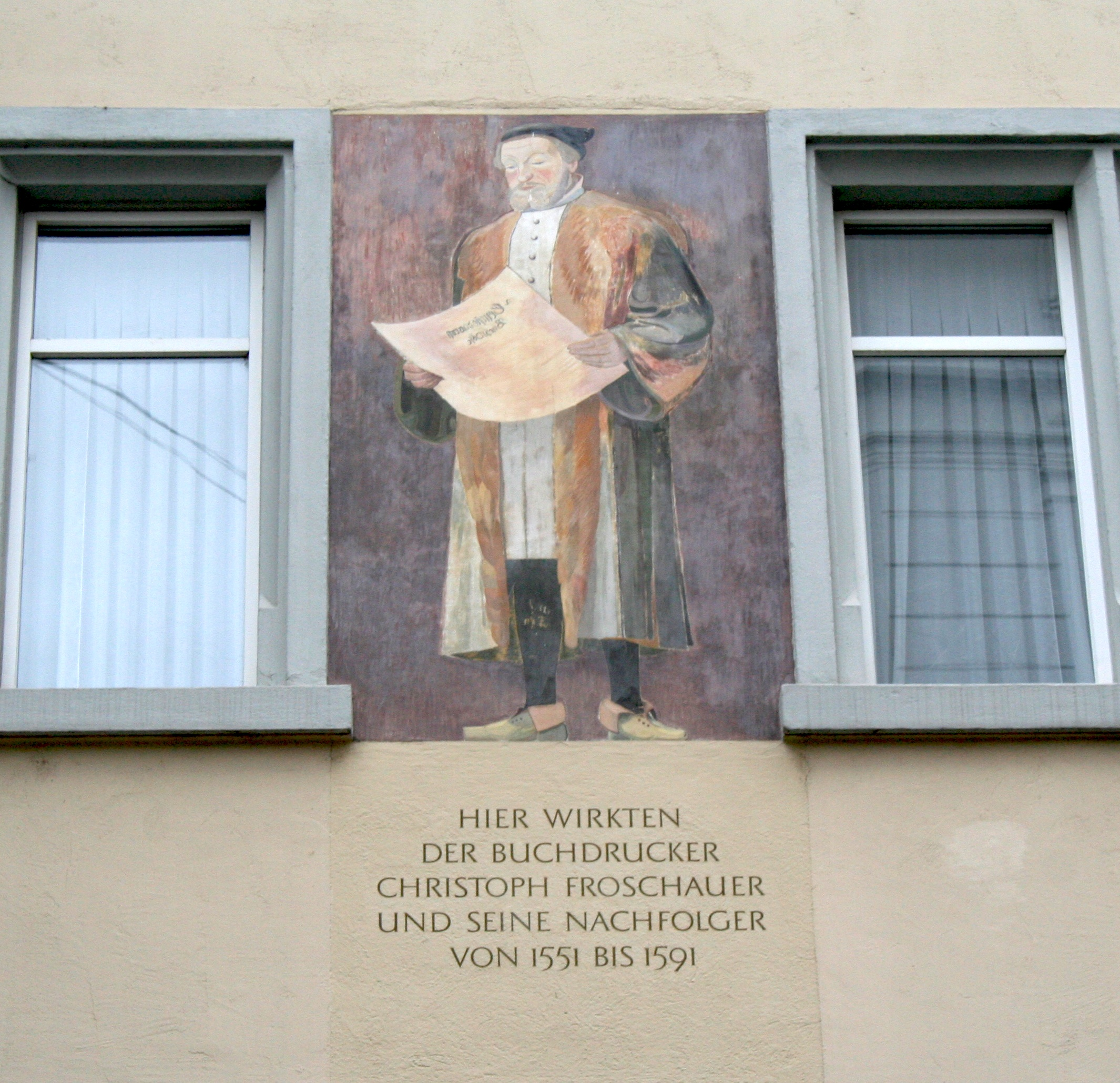 The house of printer Froschauer at Brunngasse 18 in Zurich